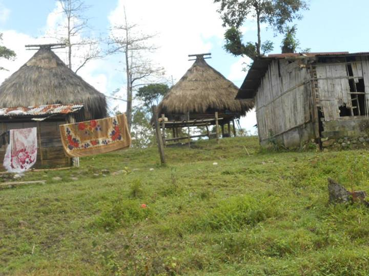 Soibada, East Timor